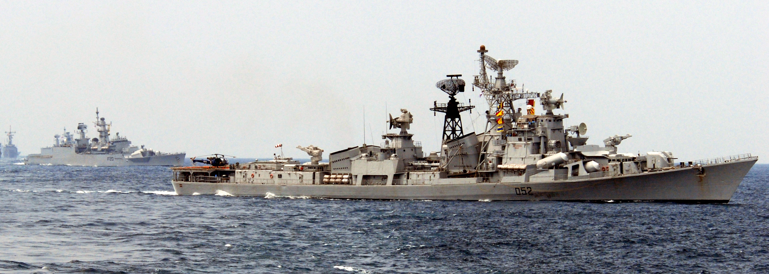 081022-N-4995K-094 INDIAN OCEAN (Oct. 22, 2008) The Indian ship Rajput class destroyer INS Rana (D 52), of the Indian navy's Western Fleet, leads the break away maneuvering from a passing exercise formation with the Ronald Reagan Carrier Strike Group. The Nimitz-class Aircraft carrier USS Ronald Reagan led the formation as it received honors in passing by the Indian navy's Western Fleet flagship INS Mumbai (D 62), signifying the completion of the three-day exercise Malabar 08. Malabar was designed to increase cooperation between the Indian and U.S. Navy while enhancing the cooperative security relationship between India and the U.S.